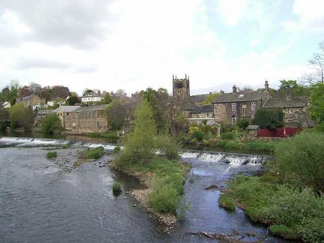 View of Old Bingley. View across the River Aire from Ireland Bridge.